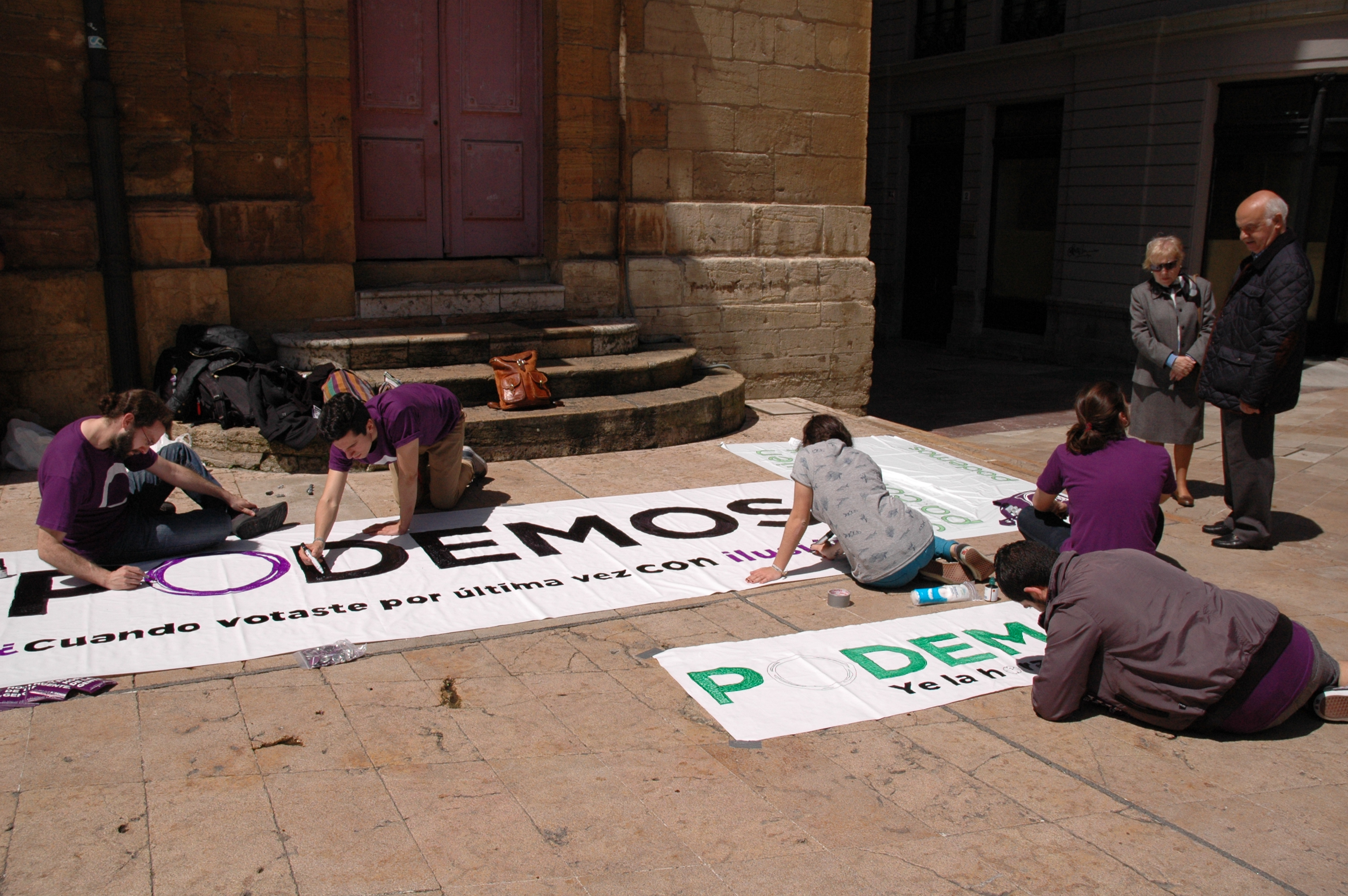 Podemos, Uvieu, 2014.